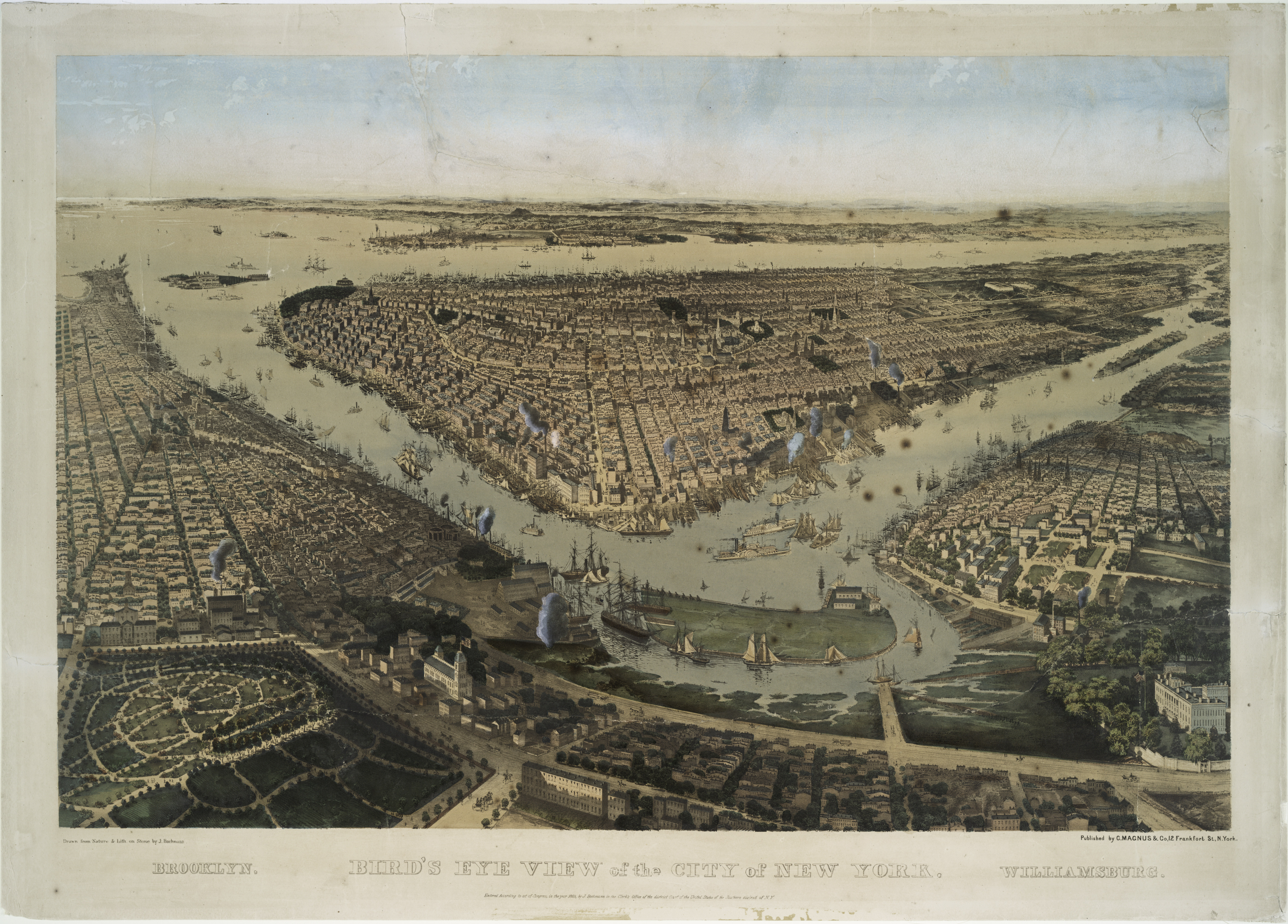 Bird's eye view of the City of New York, Brooklyn, Williamsburg, 1859. Courtesy of the New York Public Library.